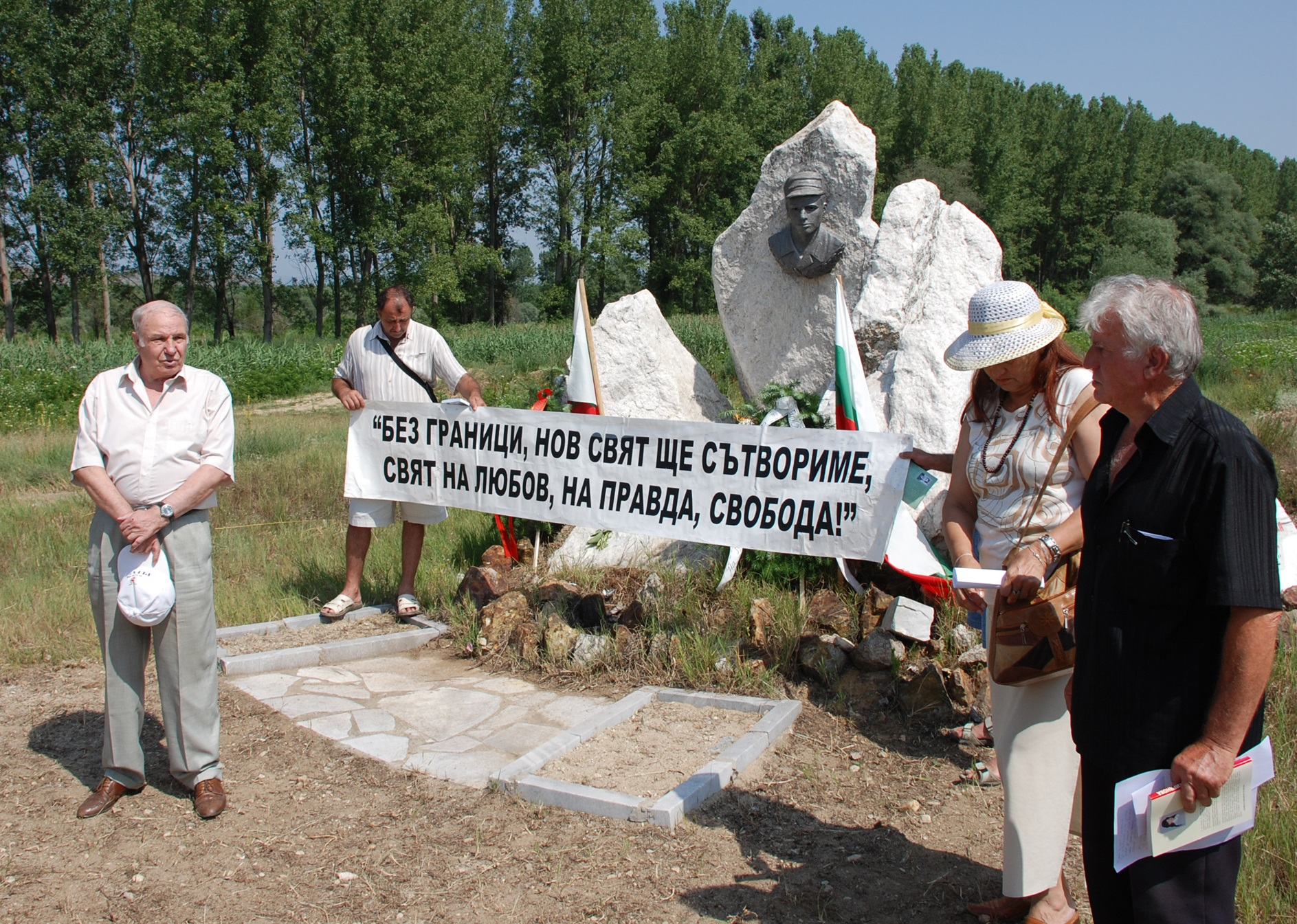 Former vice president of Bulgaria Todor Kavaldzhiev, in front of Krastyo Hadzhiivanov's memorial.